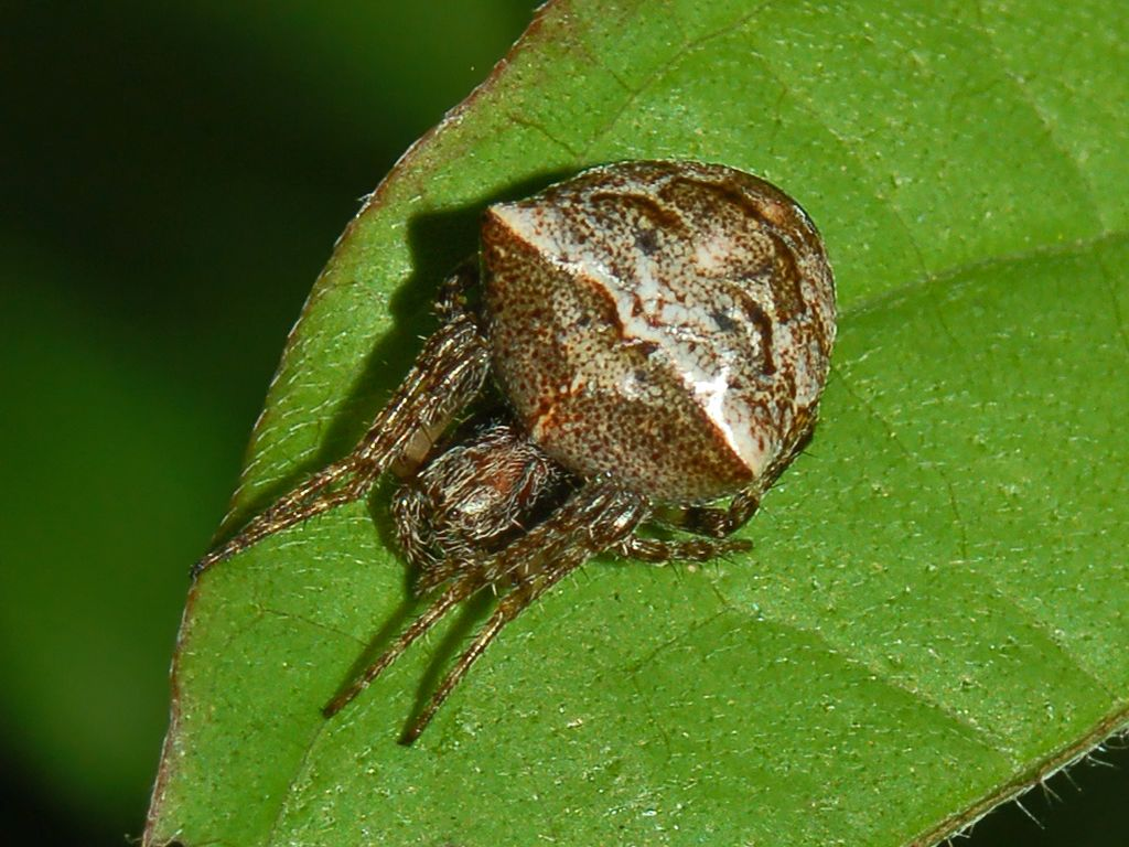 Gibbaranea bituberculata in Val Noci, Genova, Italy